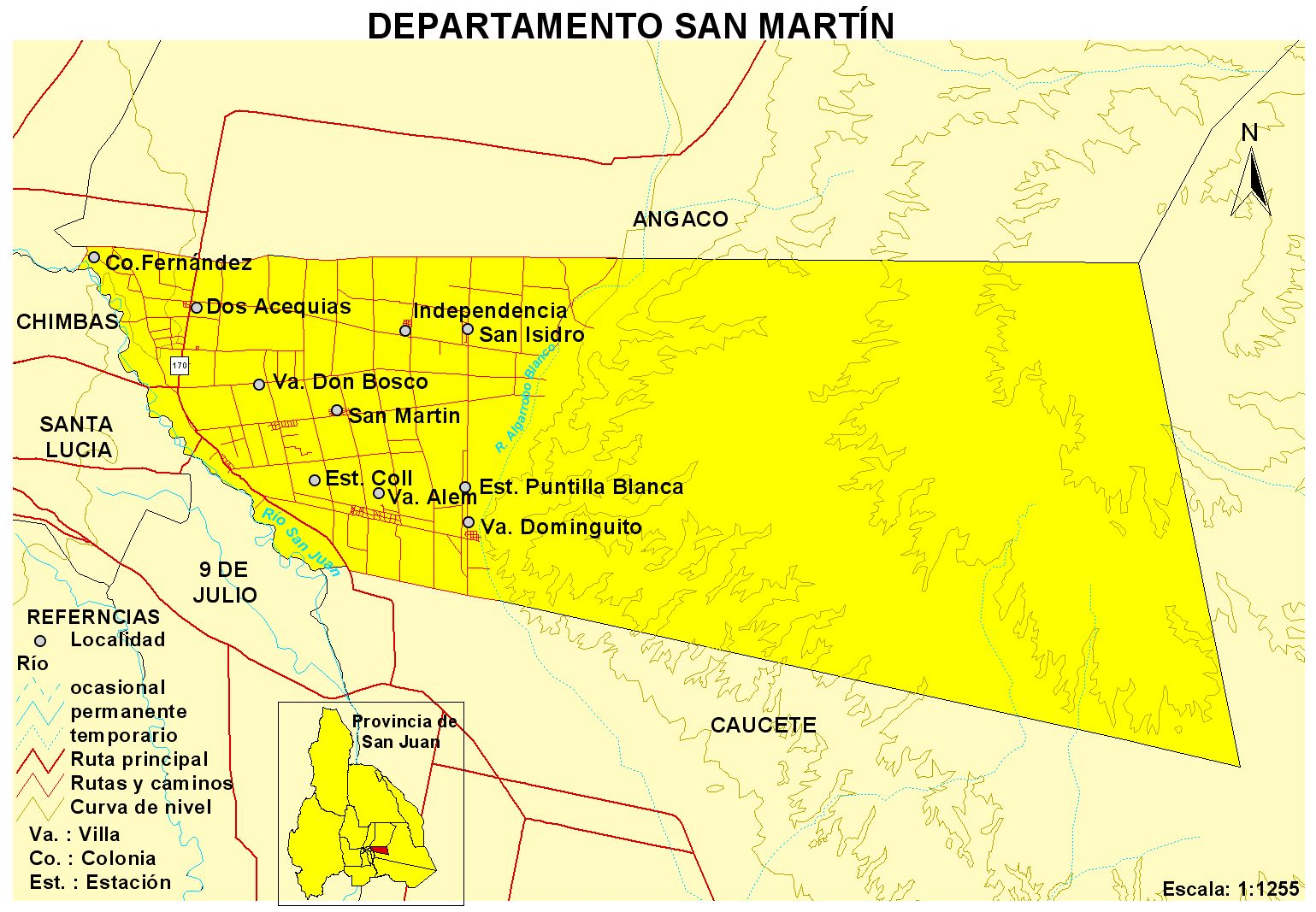 Map of San Martín Department, San Juan Province, Argentina